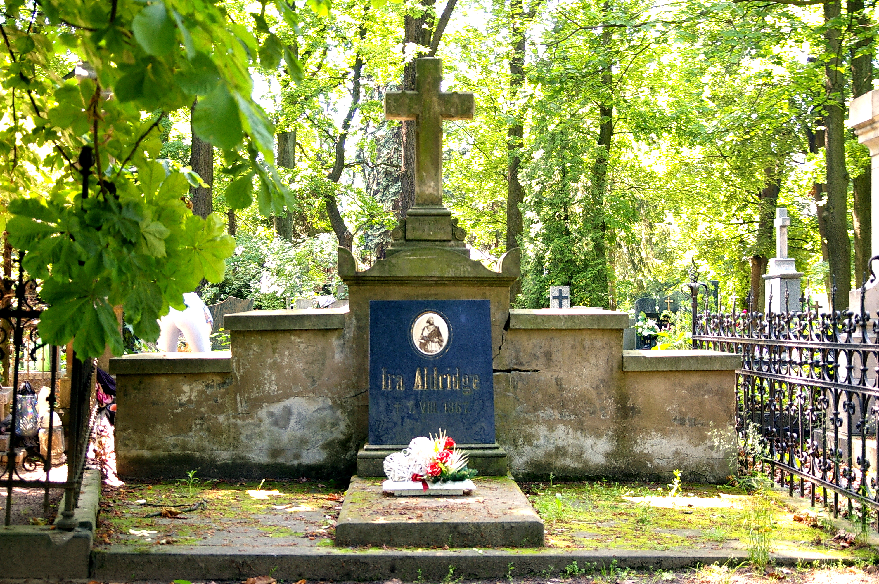 Ira Aldridge's grave, Old Cemetary in Łódź, Poland